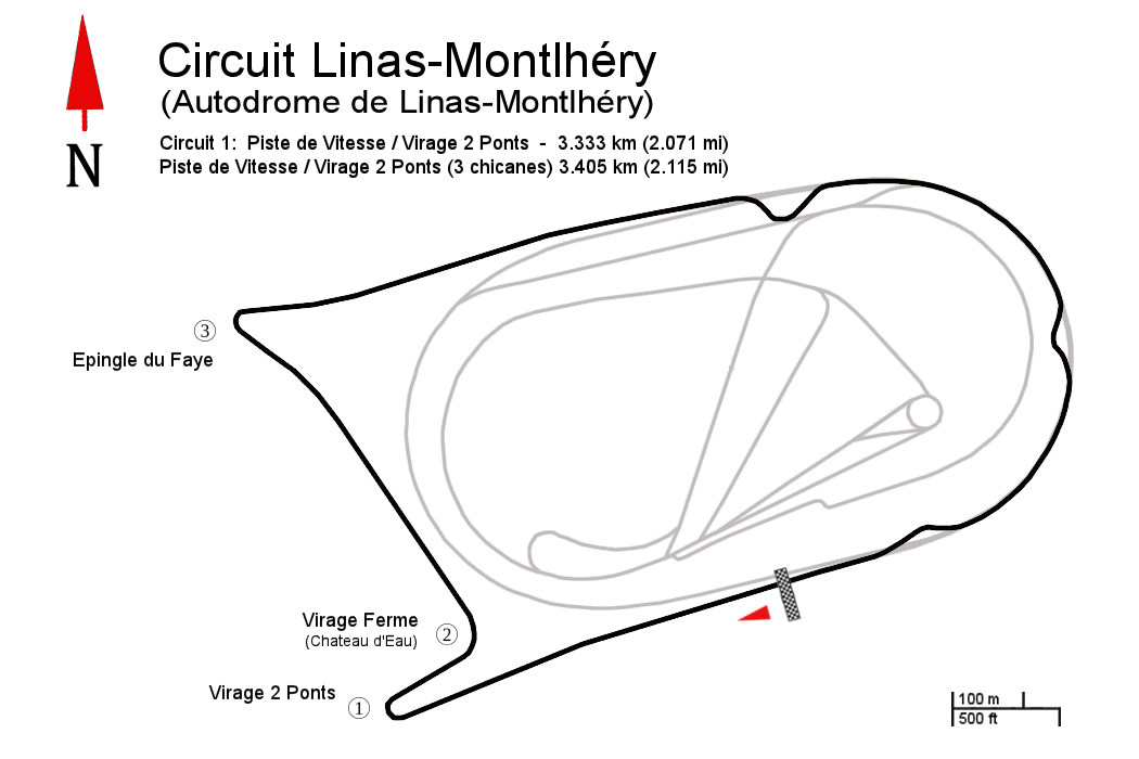 Autodrome de Linas-Montlhéry - Circuit 1